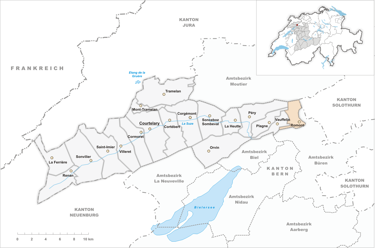 Municipality Romont